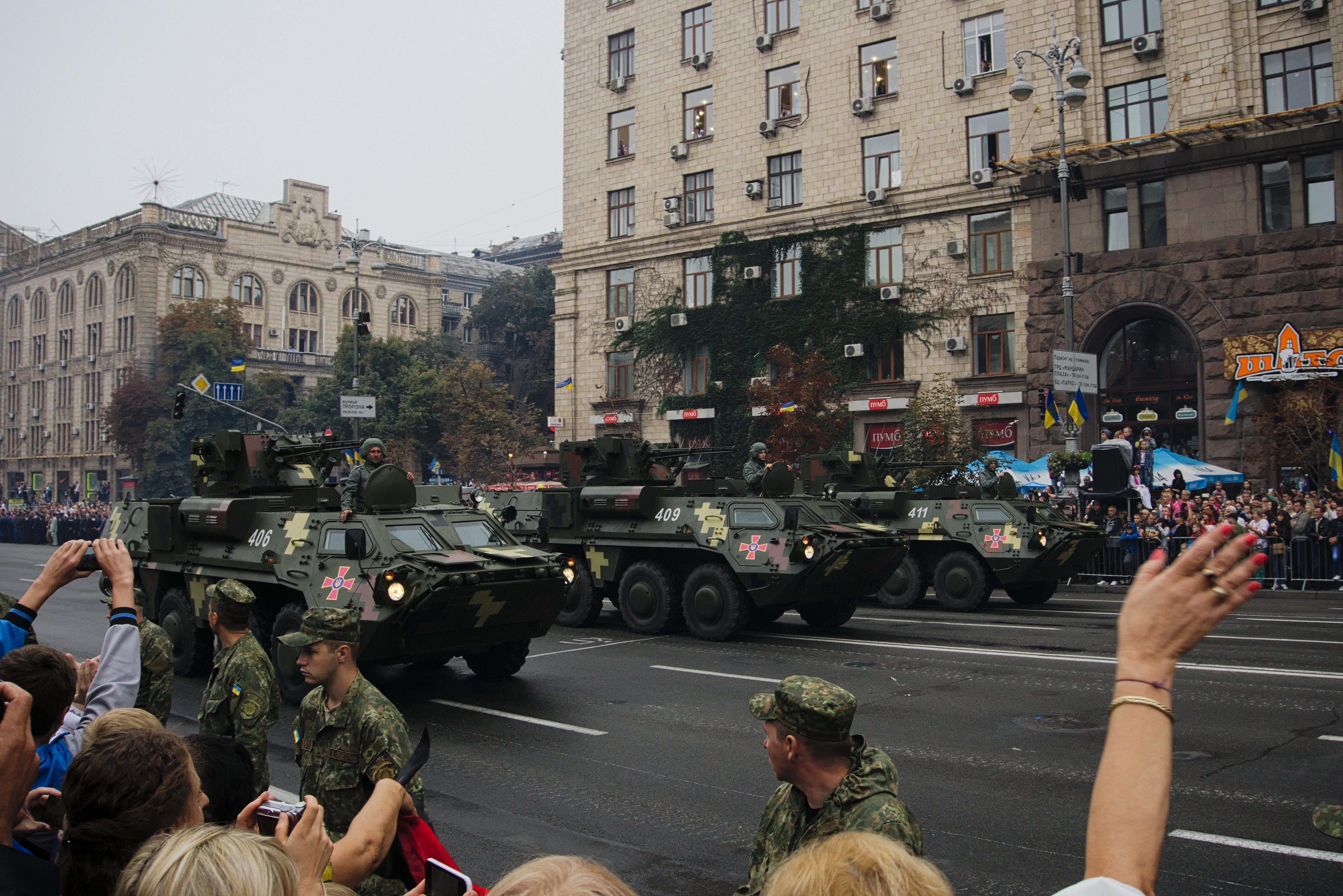 APC BTR-4E «Bucephalus» (92nd Mechanized Brigade)